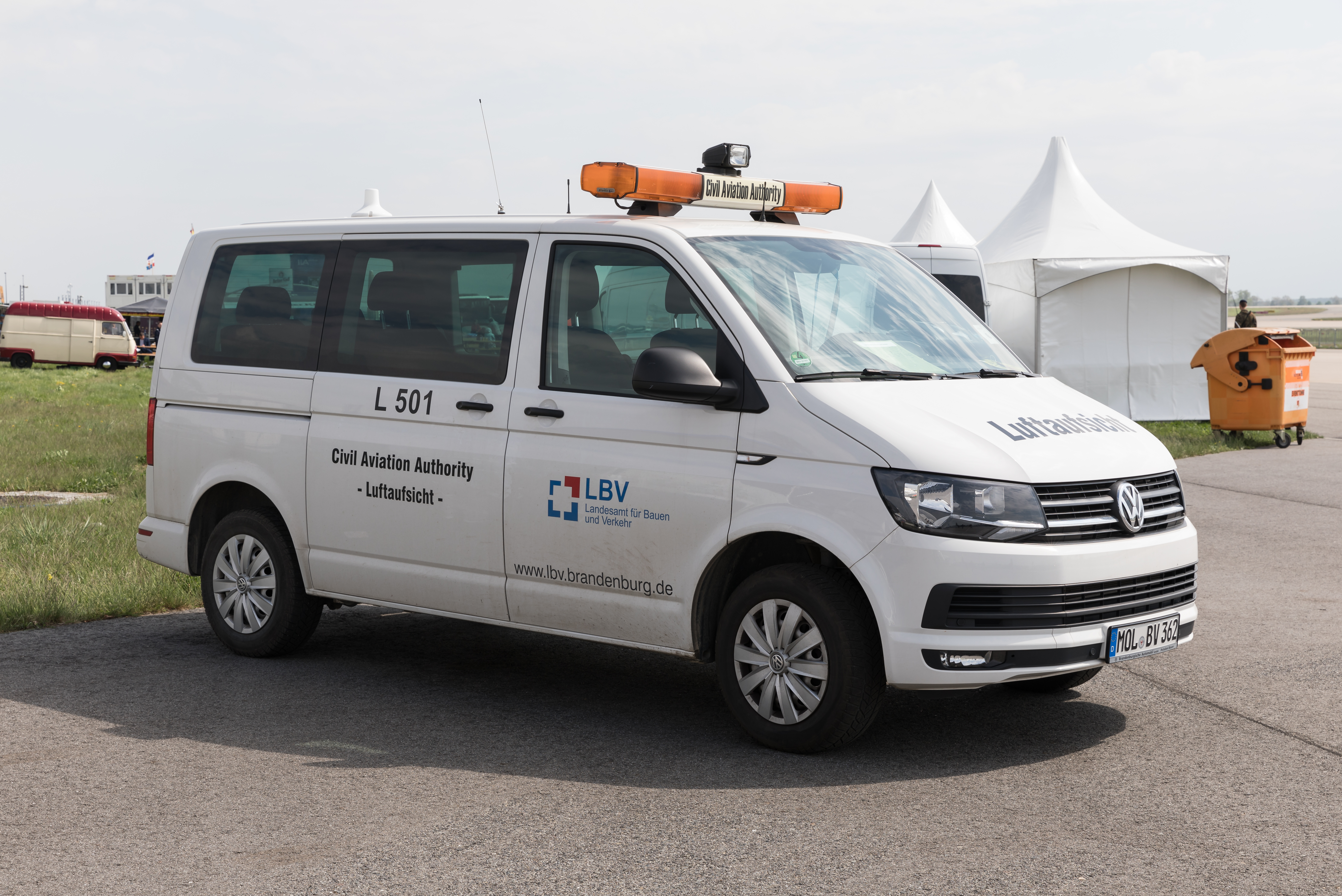 ILA 2018